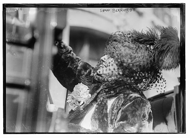 Sarah Bernhardt in later years